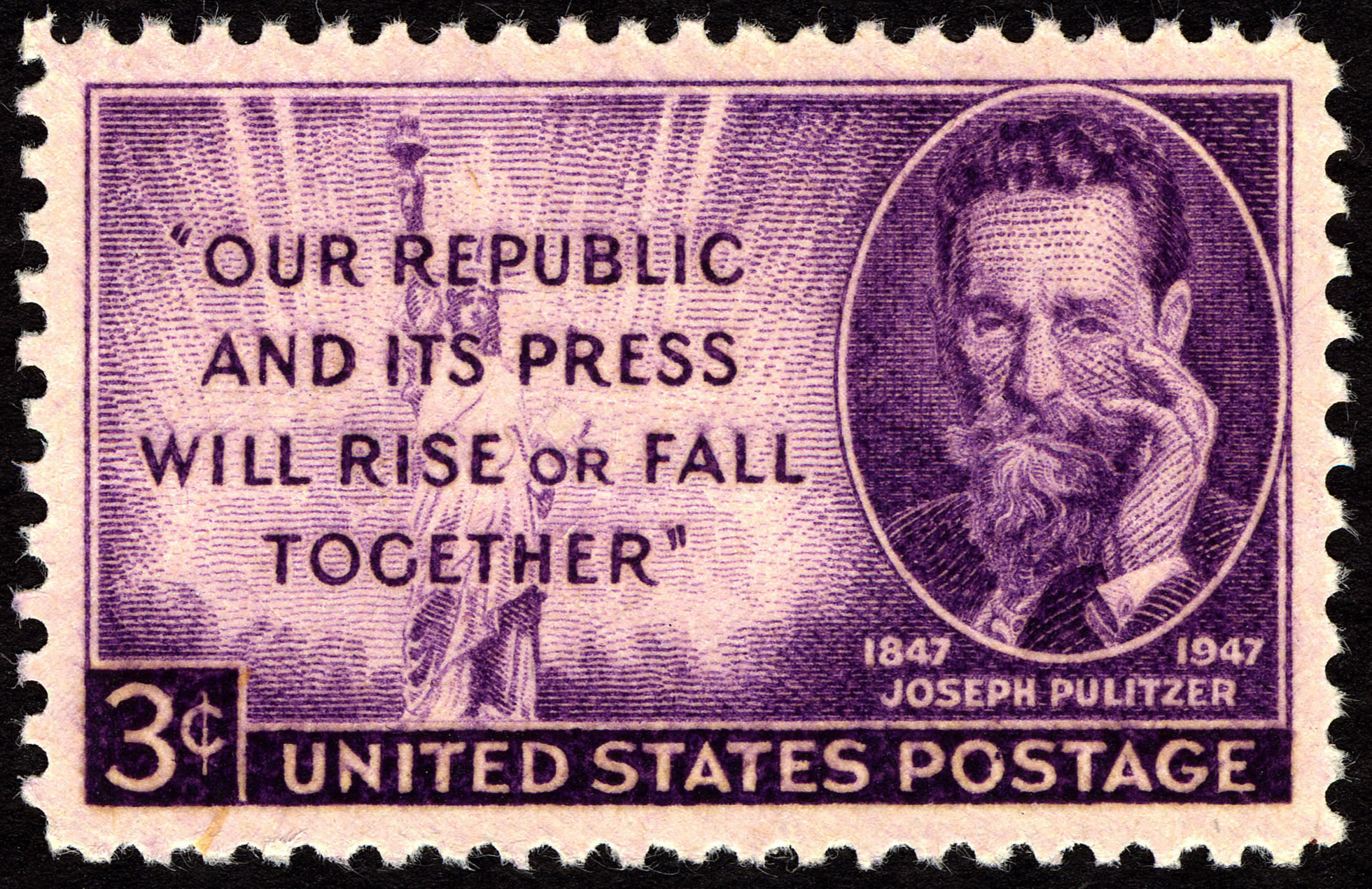 Joseph Pulitzer 3-cent 1947 issue U.S. stamp, commemorating the 100th anniversary of his birth. 1847-1947 "Our Republic And Its Press Will Rise Or Fall Together".